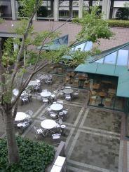 Osaki Campus, Rissho University